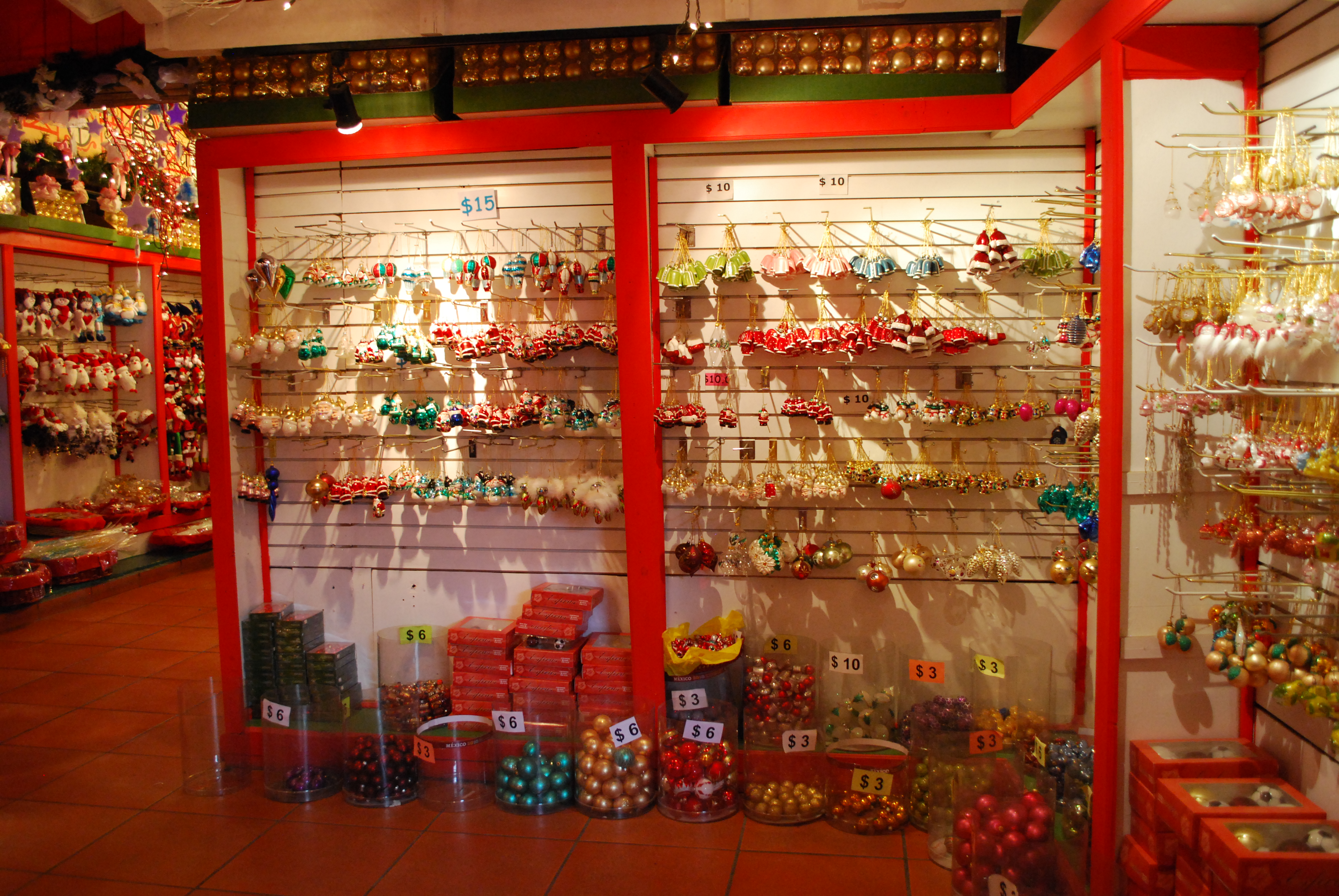 Merchandise on display at the La Casa de Santa Claus in Tlalpujahua, Michoacan